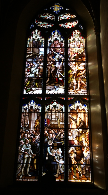 St Giles' Cathedral, Edinburgh, Scotland. Stained glass in the Moray Chapel: the assassination and funeral of Regent Moray. By Ballantine & Son, 1881.